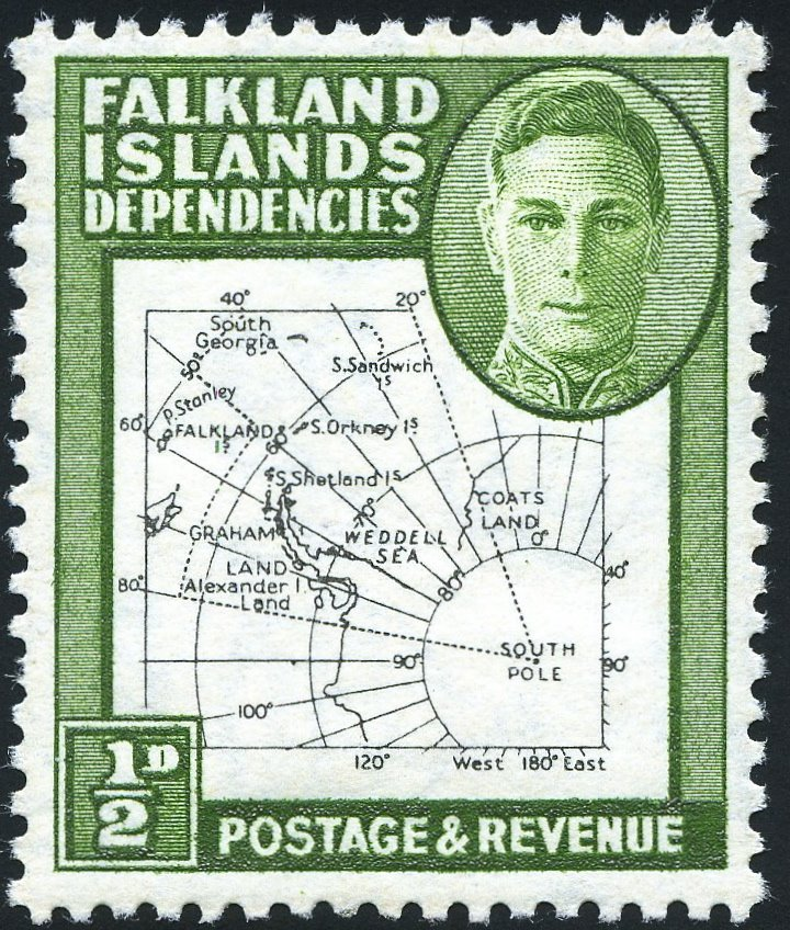 Stamp of Falkland Islands Dependencies, 1948, 0,5 d, green, SG G9-G16.